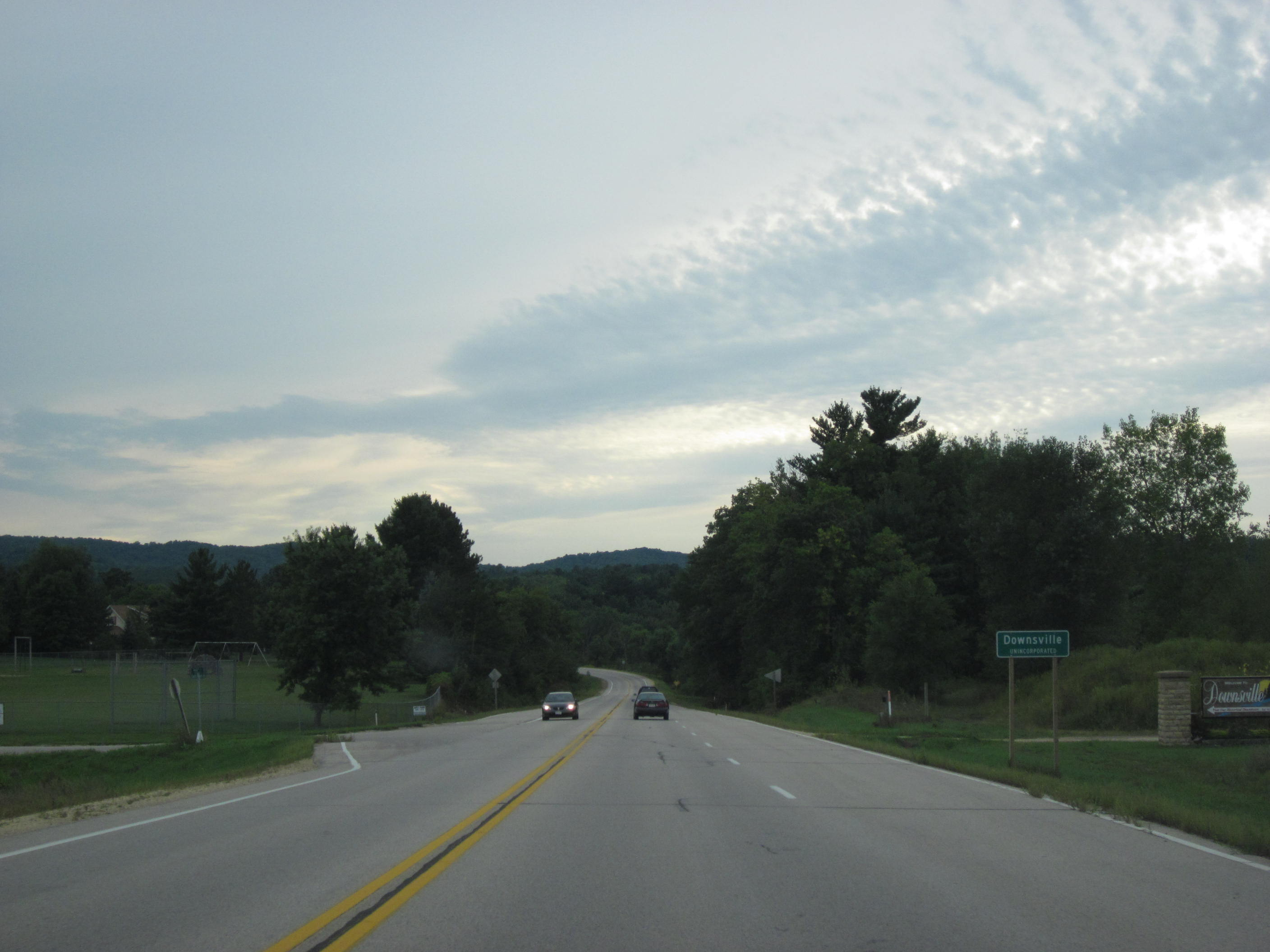 Looking south at the sign for Downsville, Wisconsin on Wisconsin Highway 25.